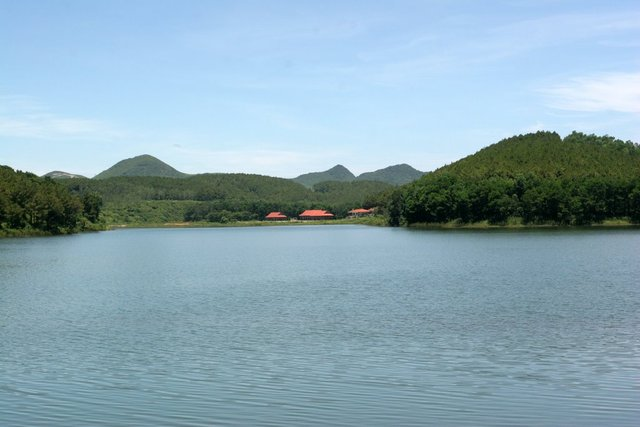 Scenery of Dong Chuong Lake in Nho Quan, Ninh Binh Province